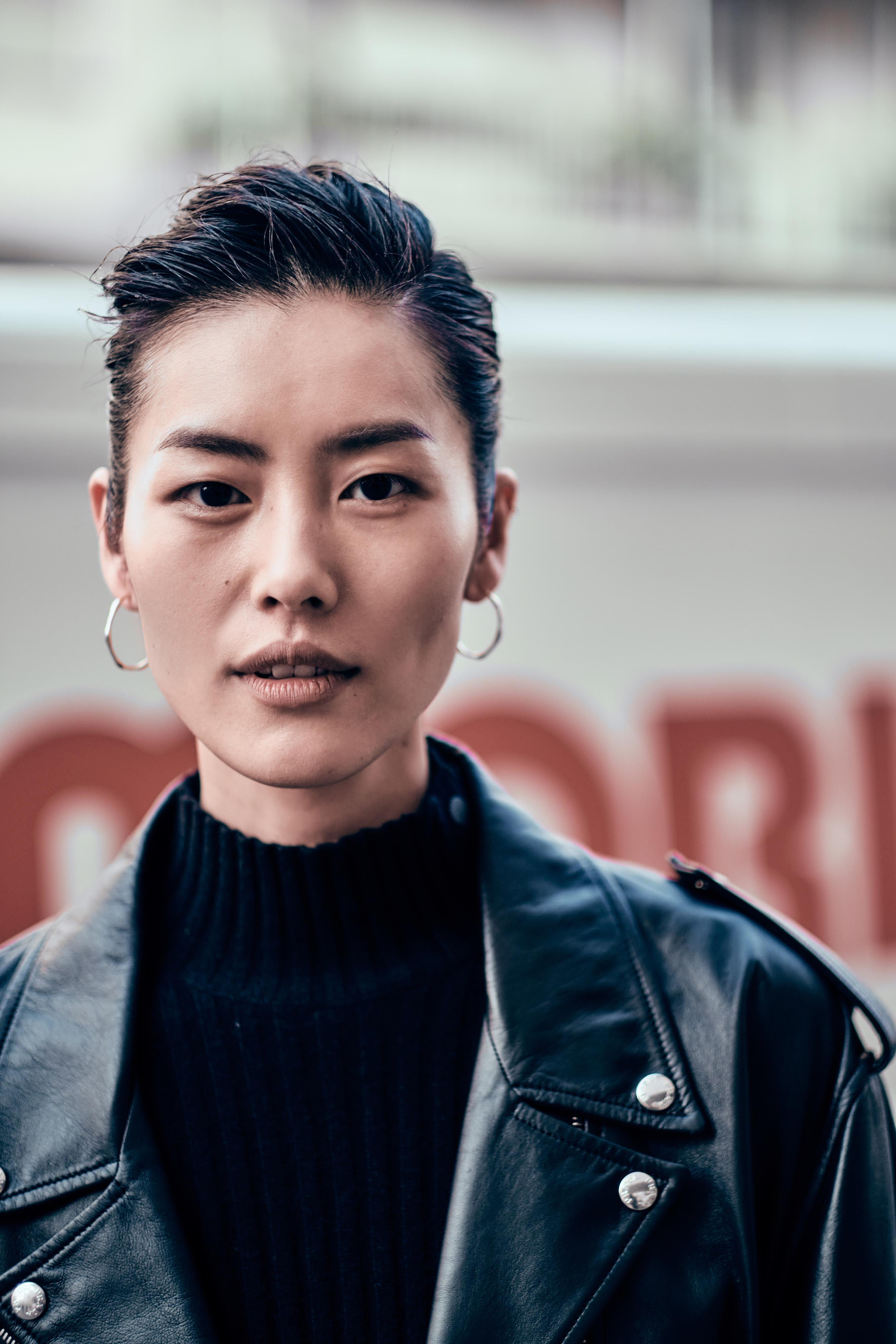 Liu Wen at Milan Fashion Week RTW Autumn/Winter 2019